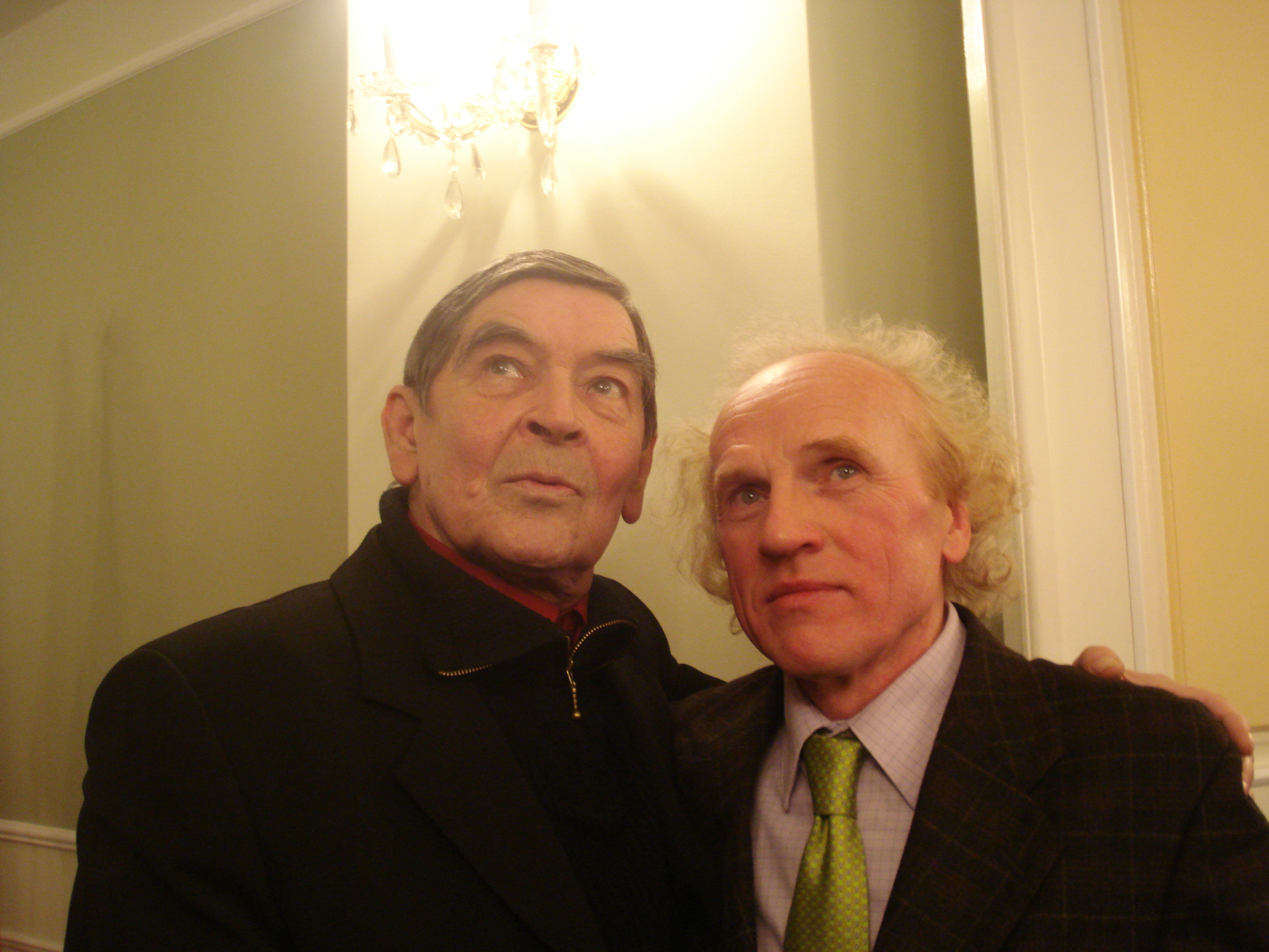 Vladimir Jefremov (actor) and Vladimir Tarasov (musician)